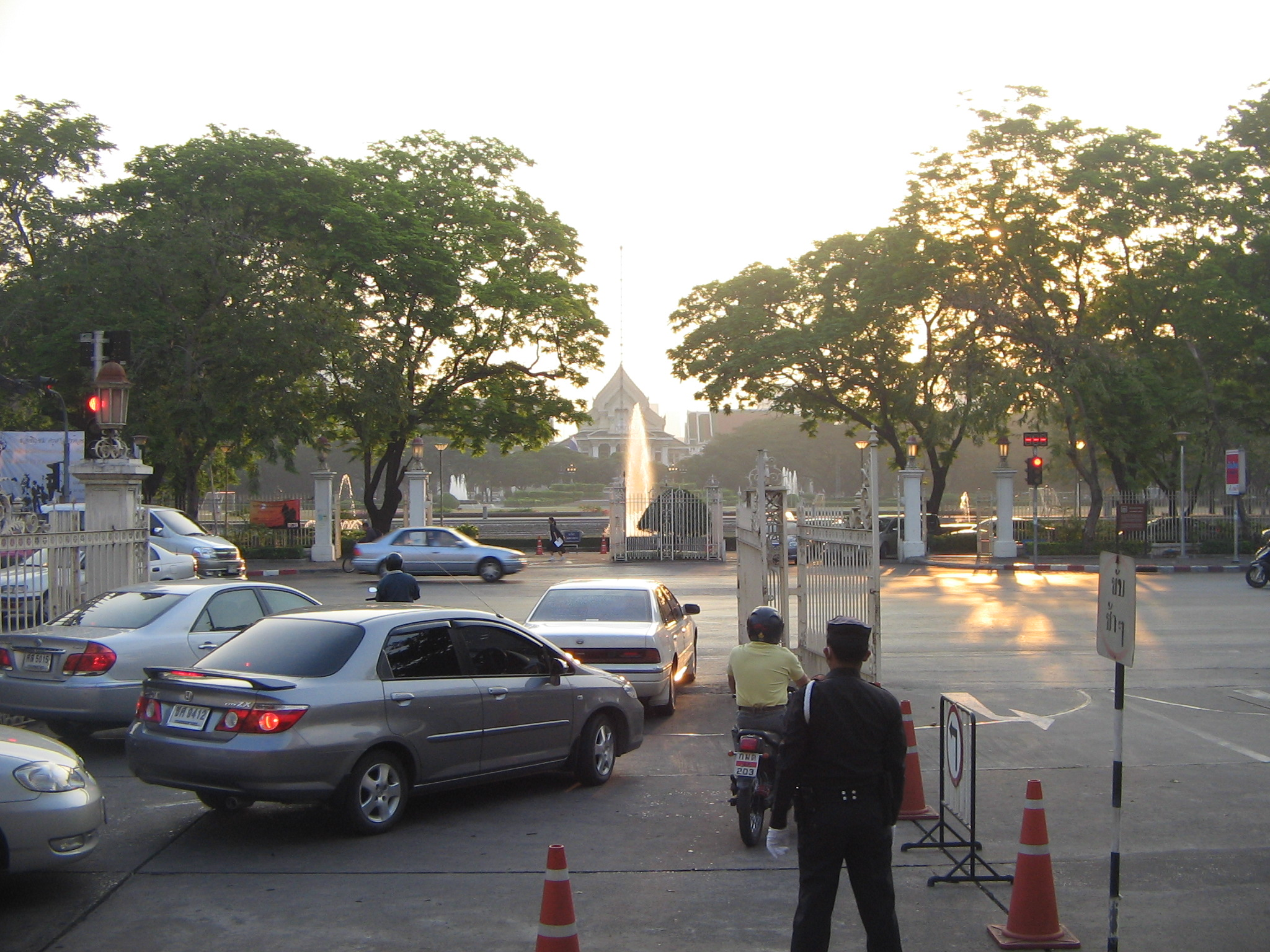 This image depicts Chulalongkorn University front gate with traffic congestion in the morning. Note that flag of Thailand was not raised yet.